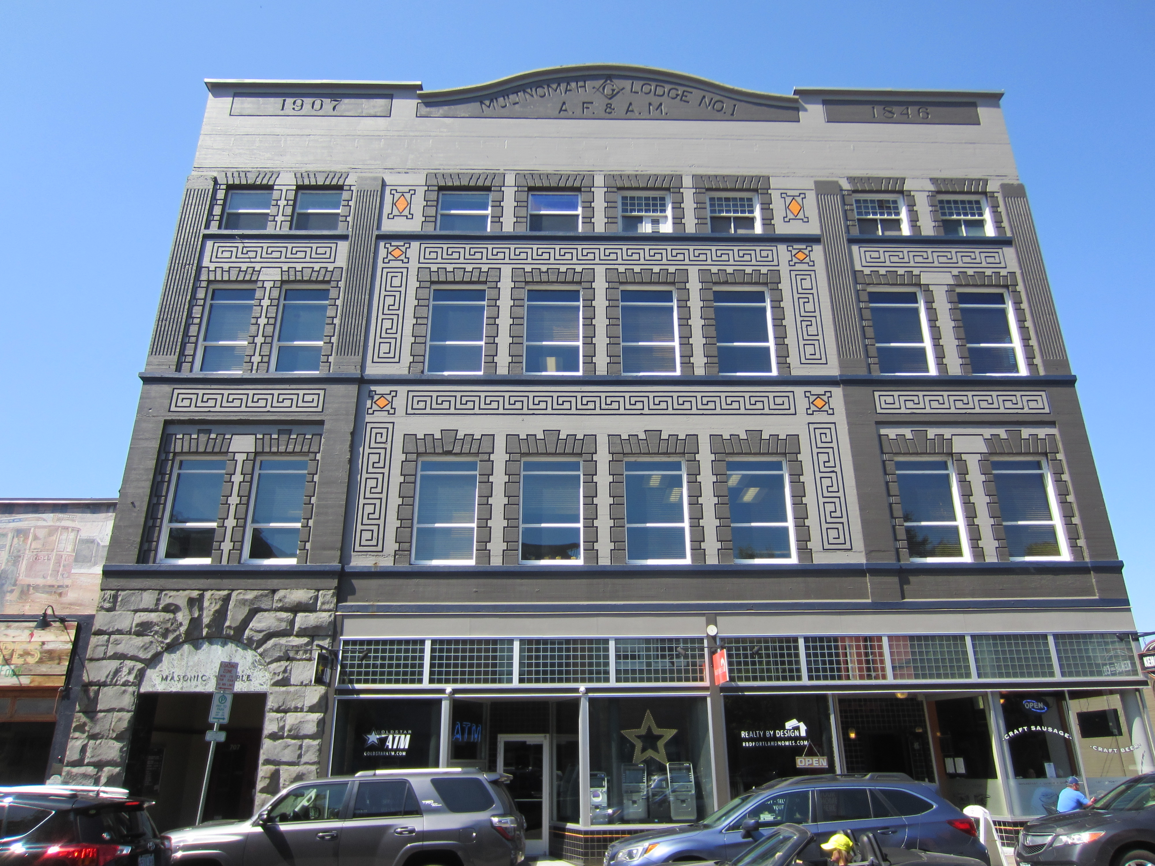 Oregon City, Oregon (April 2018)